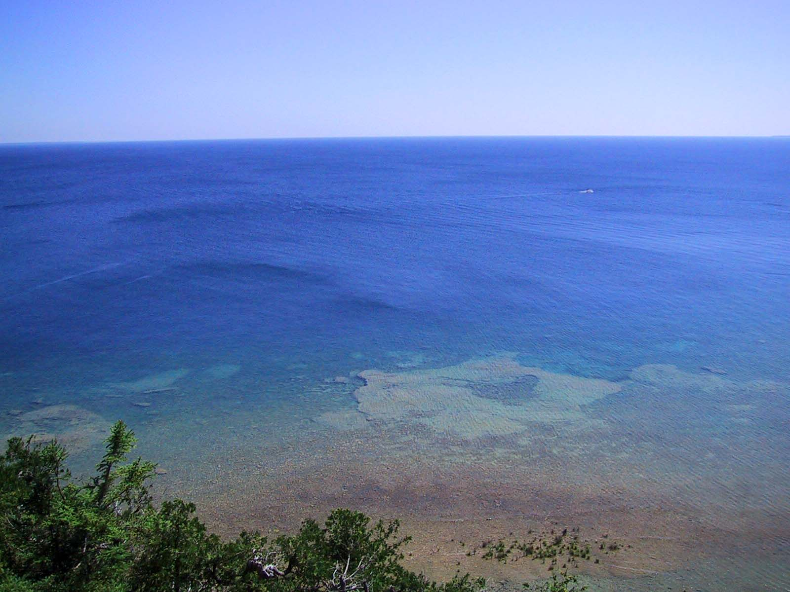 Lake Huron, photo taken facing east from Mackinac Island, Summer 2002. H.G. JUdd